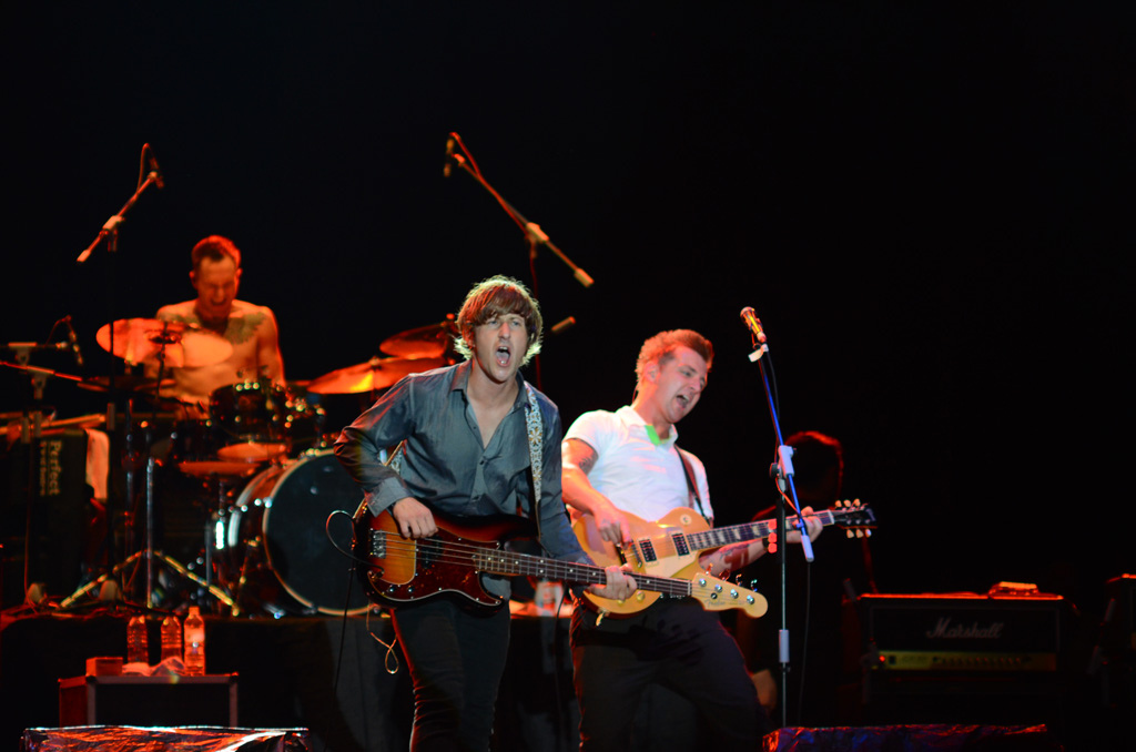 Secondhand Serenade (aka John Vesely) and his live band at Rock in Celebes, 2012